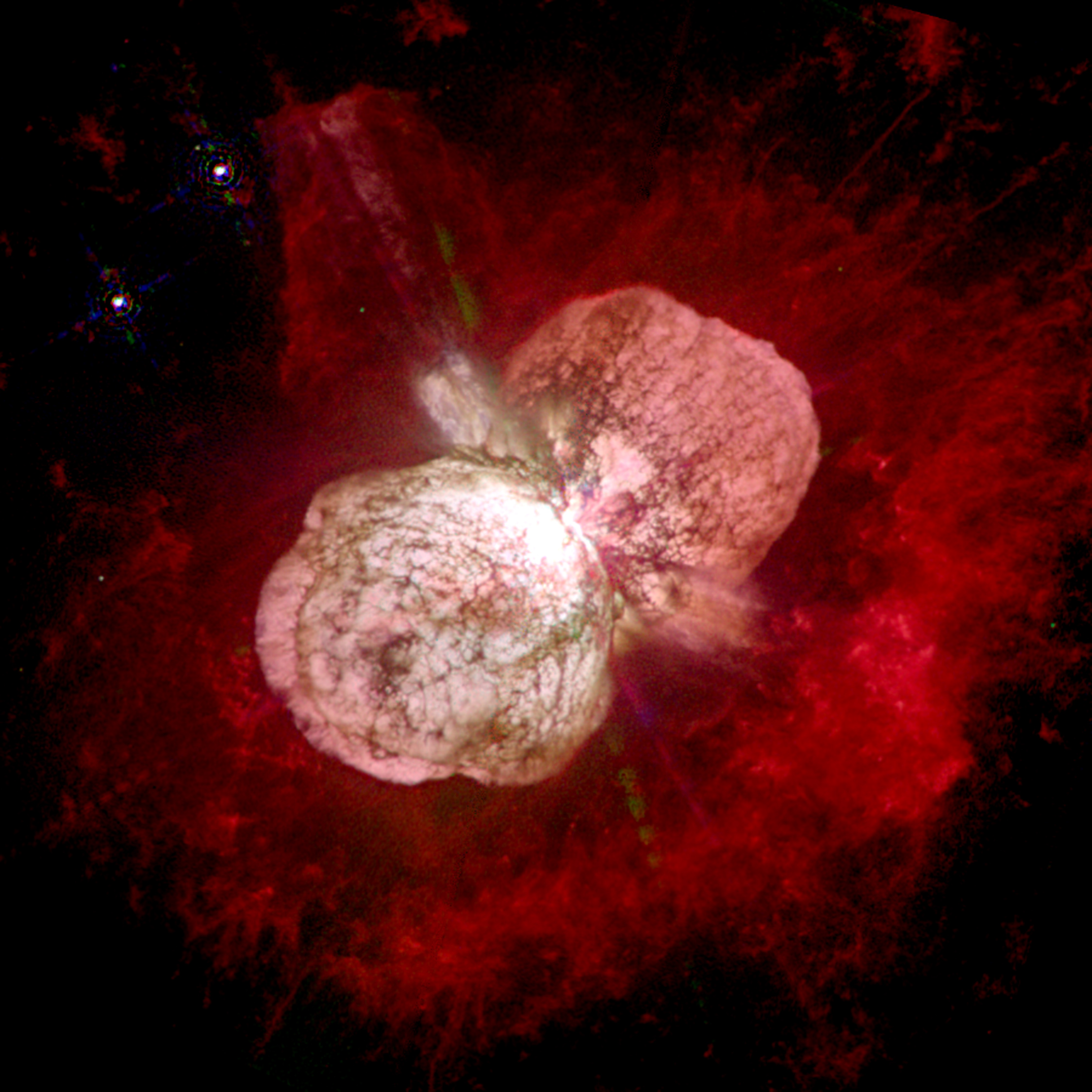 The optical image of Eta Carinae's made by the Hubble Space Telescope reveals two spectacular bubbles of gas expanding in opposite directions away from a central bright region at speeds in excess of a million miles per hour. The inner region visible in the Chandra image has never been resolved before, and appears to be associated with a central disk of high velocity gas rushing out at much higher speeds perpendicular to the bipolar optical nebula.